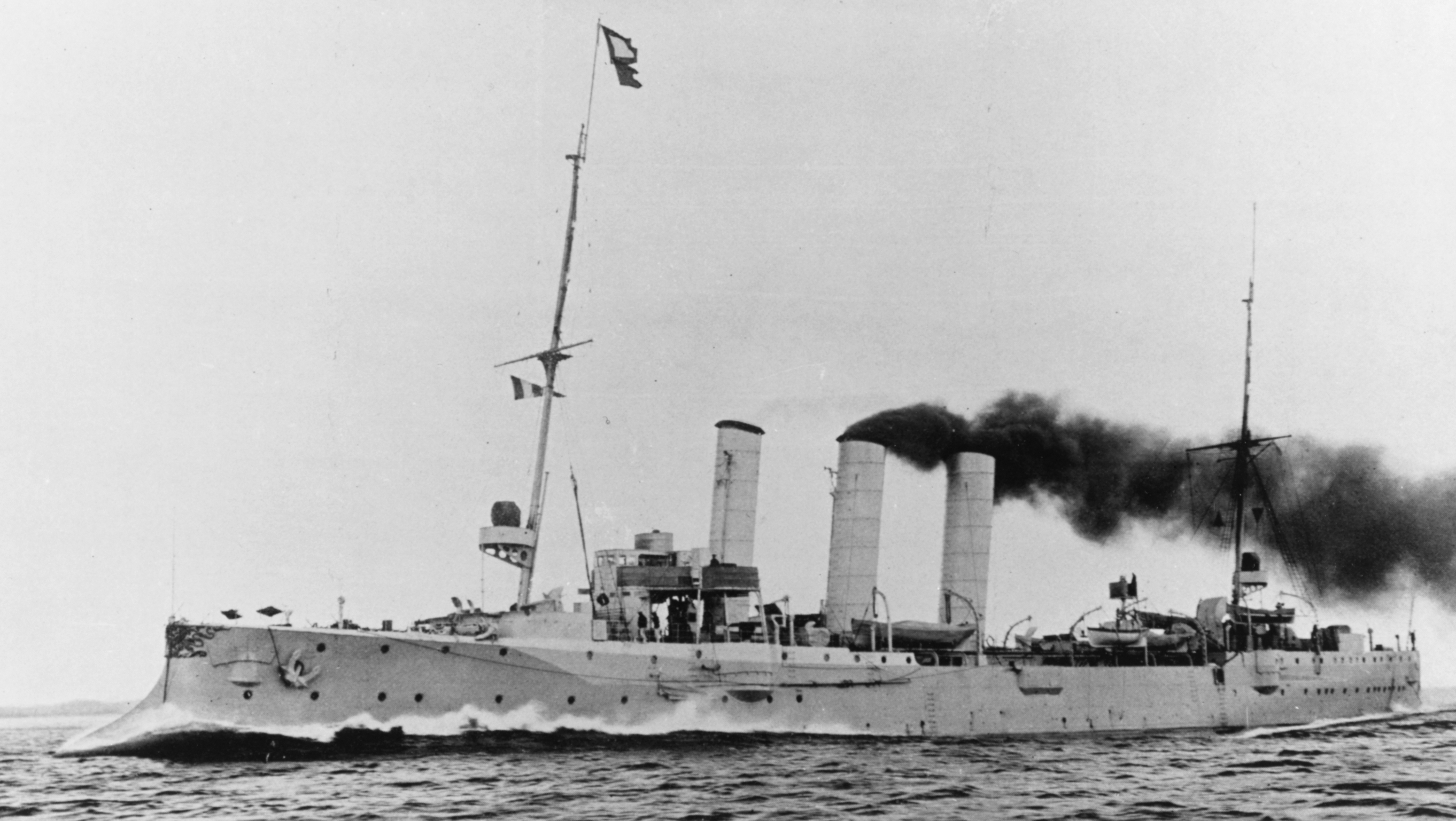 The German light cruiser SMS Hamburg underway.